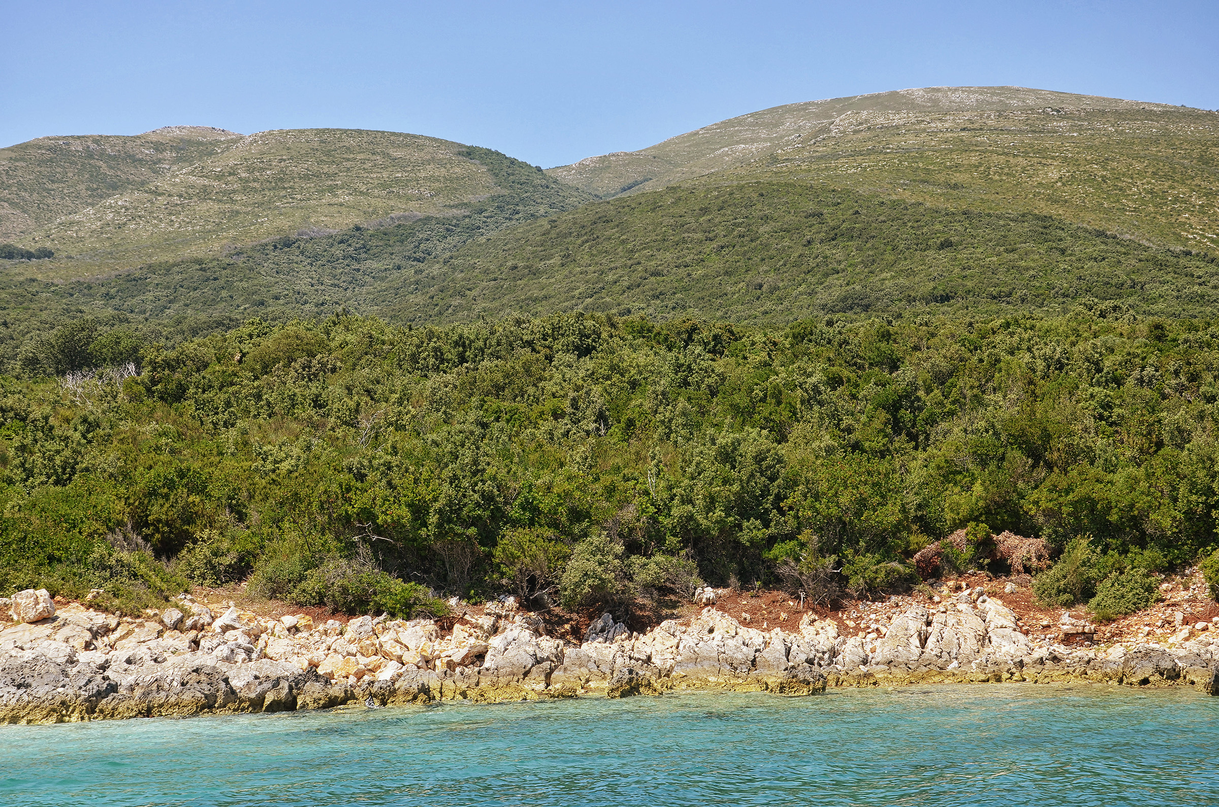 Karaburun Peninsula, Albania viewed from the Vlorë Bay